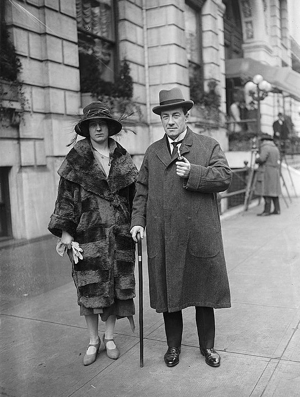 British Prime Minister Stanley Baldwin with his daughter